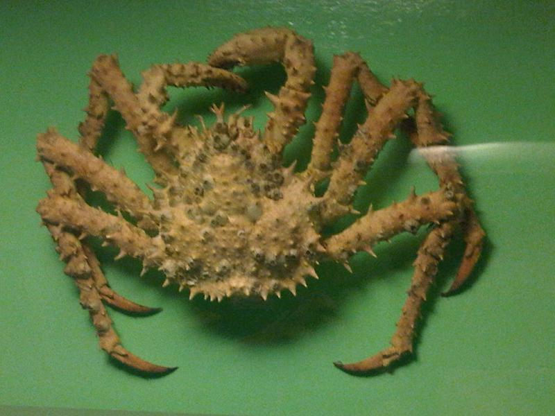 Lithodes maja at the National Museum of Natural History, Vilhena Palace, Republic of Malta.